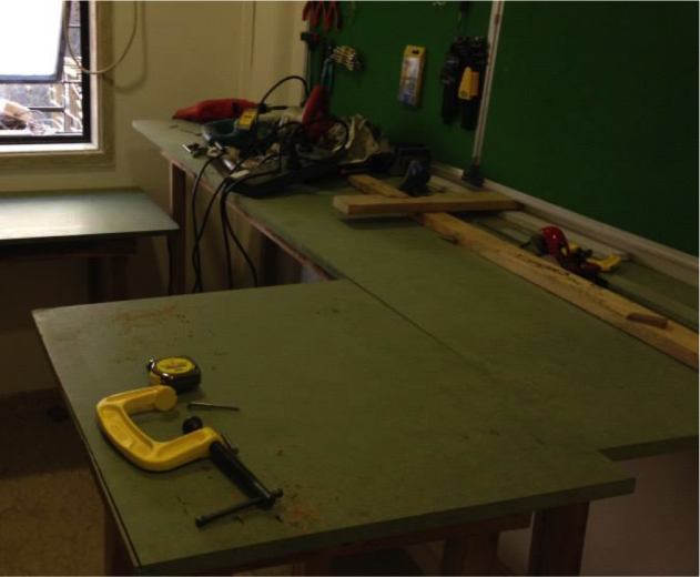 Let's build some tables